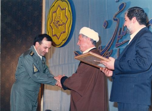 kharazmi jayeze FAM